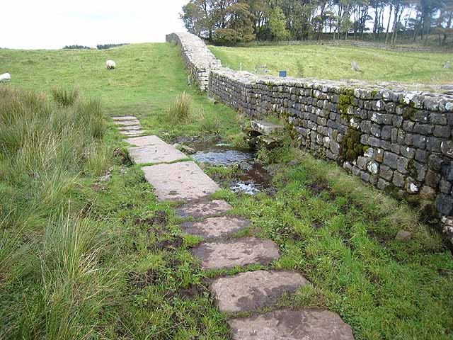 Knag Burn Gateway Hadrians Wall National Trail which runs 135 km from Bowness-on-Solway to Wallsend crosses one of the gaps in the ridge of the Whin Sill at this point. As with a number of wet and muddy spots along the Trail, flagstones have been laid down.